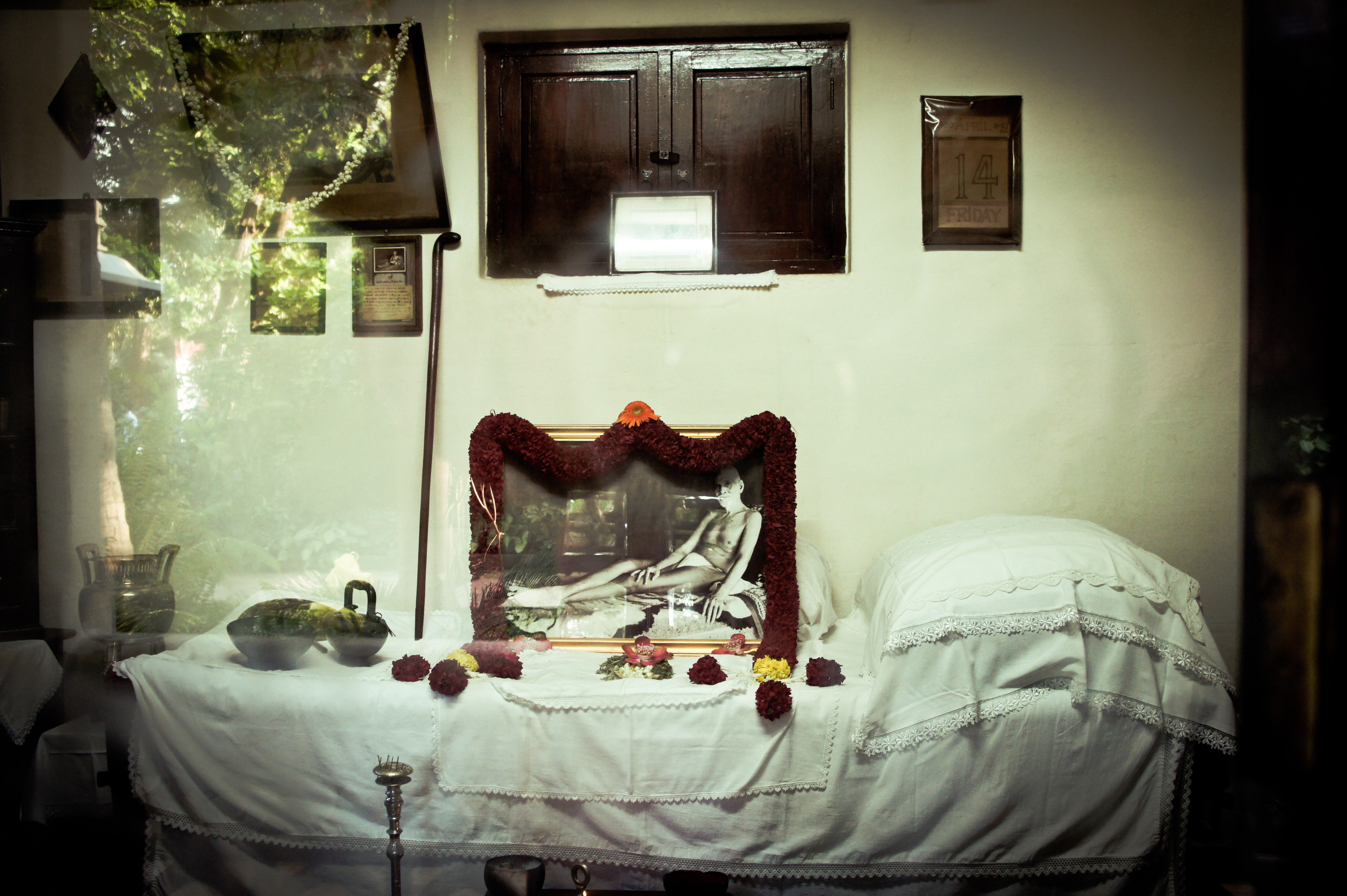 The place were Ramana reached the Mahanirvana (14th April 1950, 8h47PM)